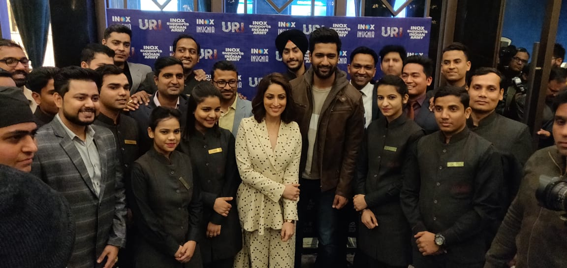 Puneet Kardam with Actor Vicky Kaushal and Yami Gautam at the Promotional event of URI The Surgical Strike Movie.